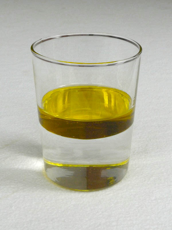 Two phases (water and oil) in the same state of aggregation (liquid).